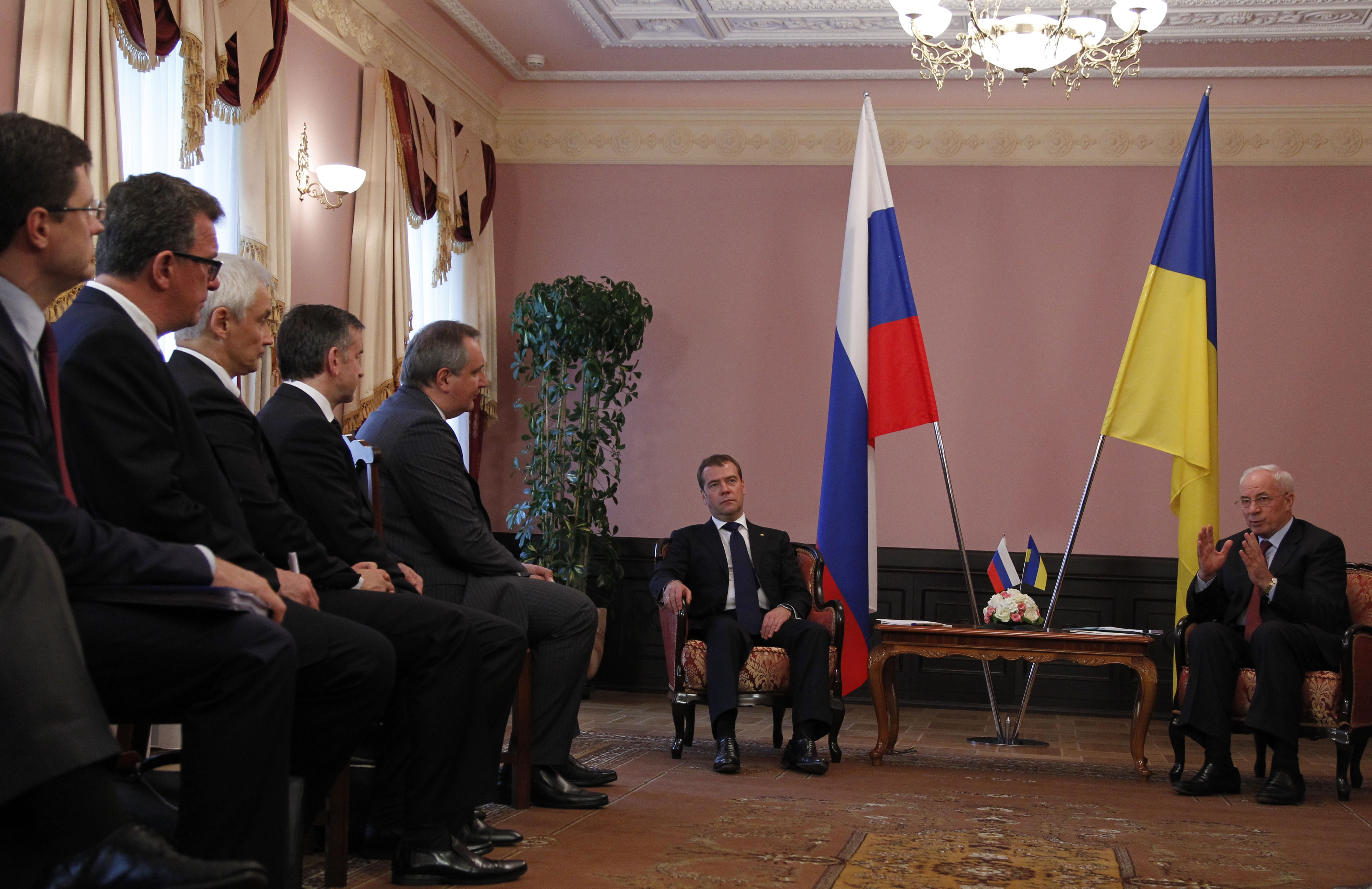 Prime Minister of the Russian Federation Dmitry Medvedev and Prime Minister of the Ukraine Nikolay Azarov